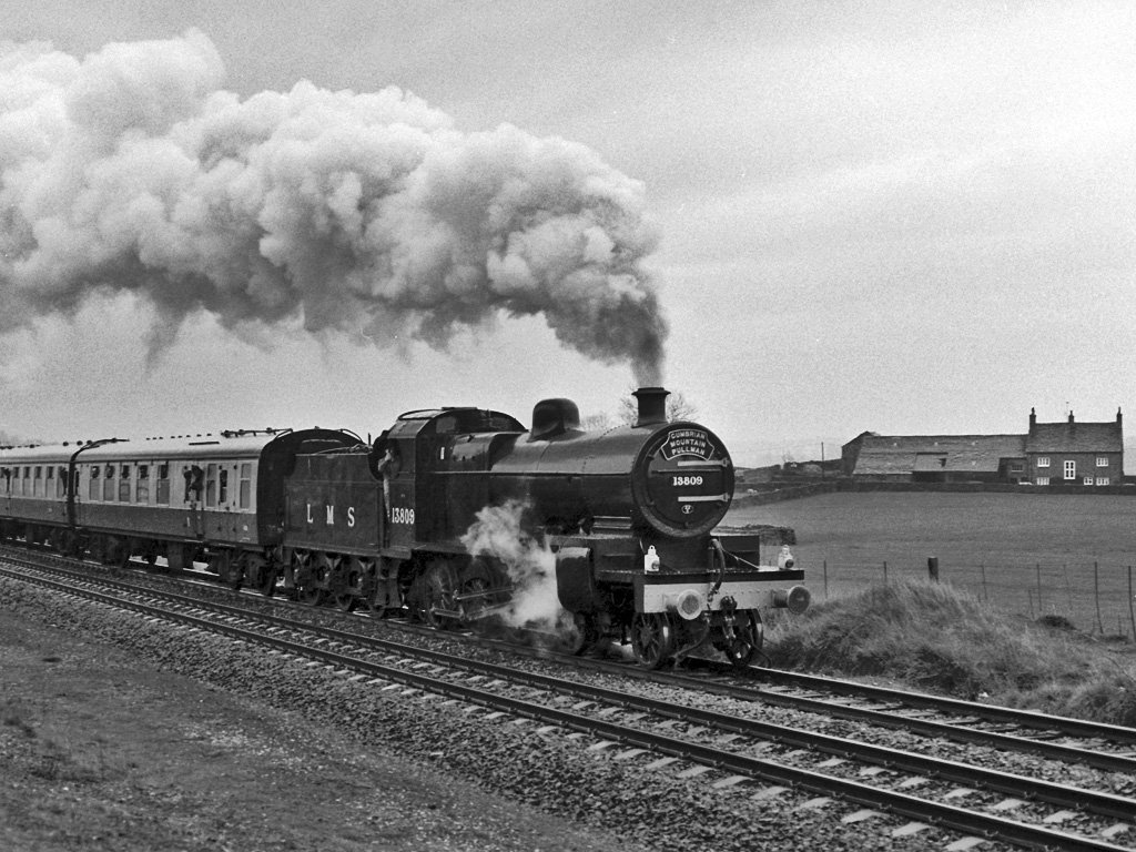 London Midland and Scottish Railway ex Somerset and Dorset Joint Railway Fowler 7F 2-8-0 locomotive number 13809 of Bath MPD on the Down Main line at Giggleswick working the Hellifield to Carnforth leg of a Cumbrian Mountain Pullman. Monday 2nd May 1983